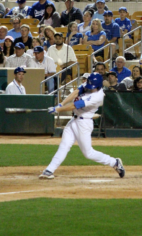 Nick Buss in spring training